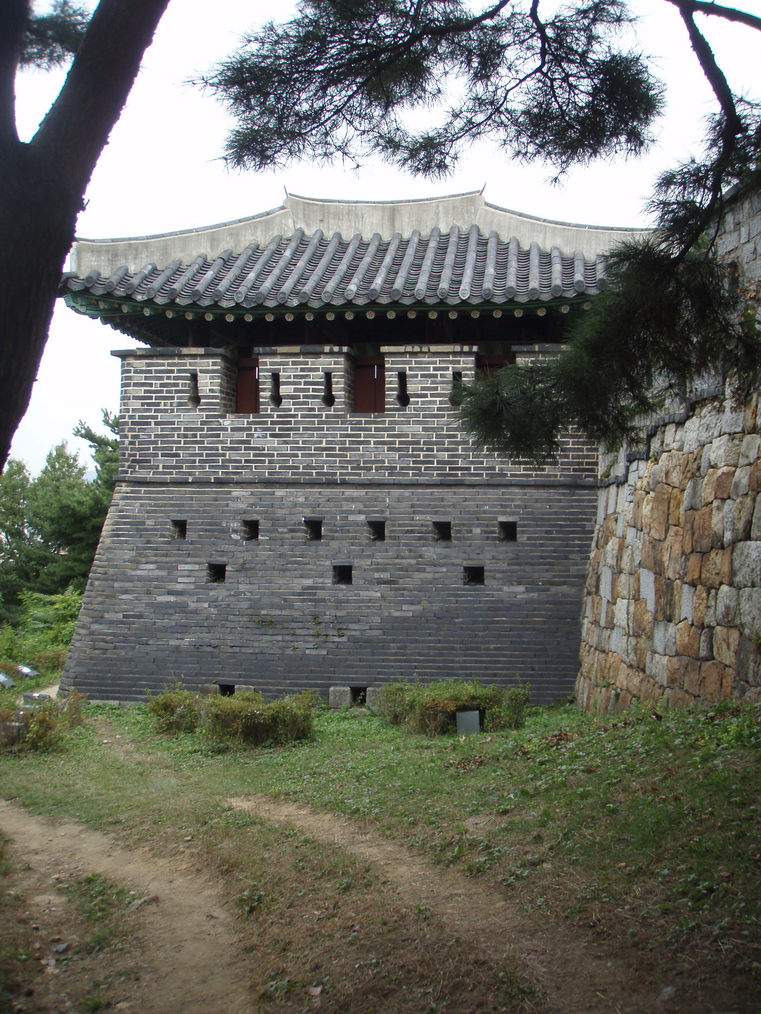 Seoporu Suwon Hwaseong Fortress UNESCO World Heritage Korea